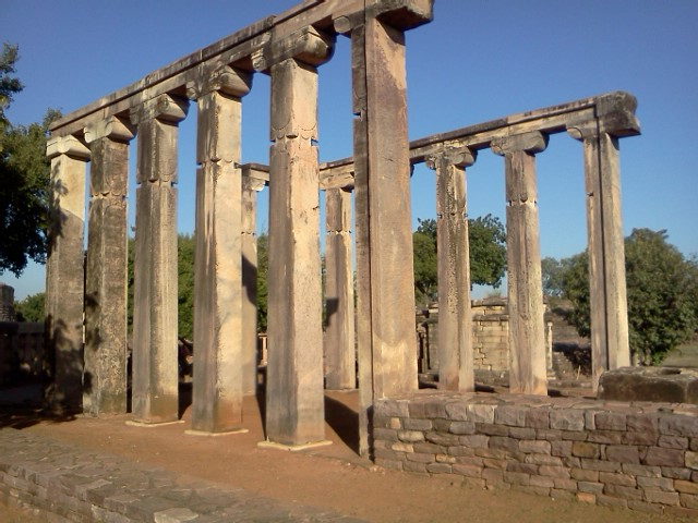 Rows of tall columns with 2-armed capitals